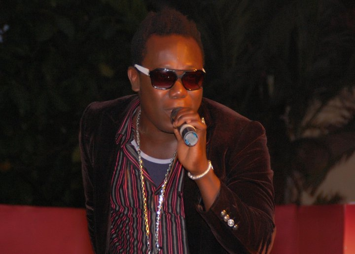 Dmighty sings into the microphone.